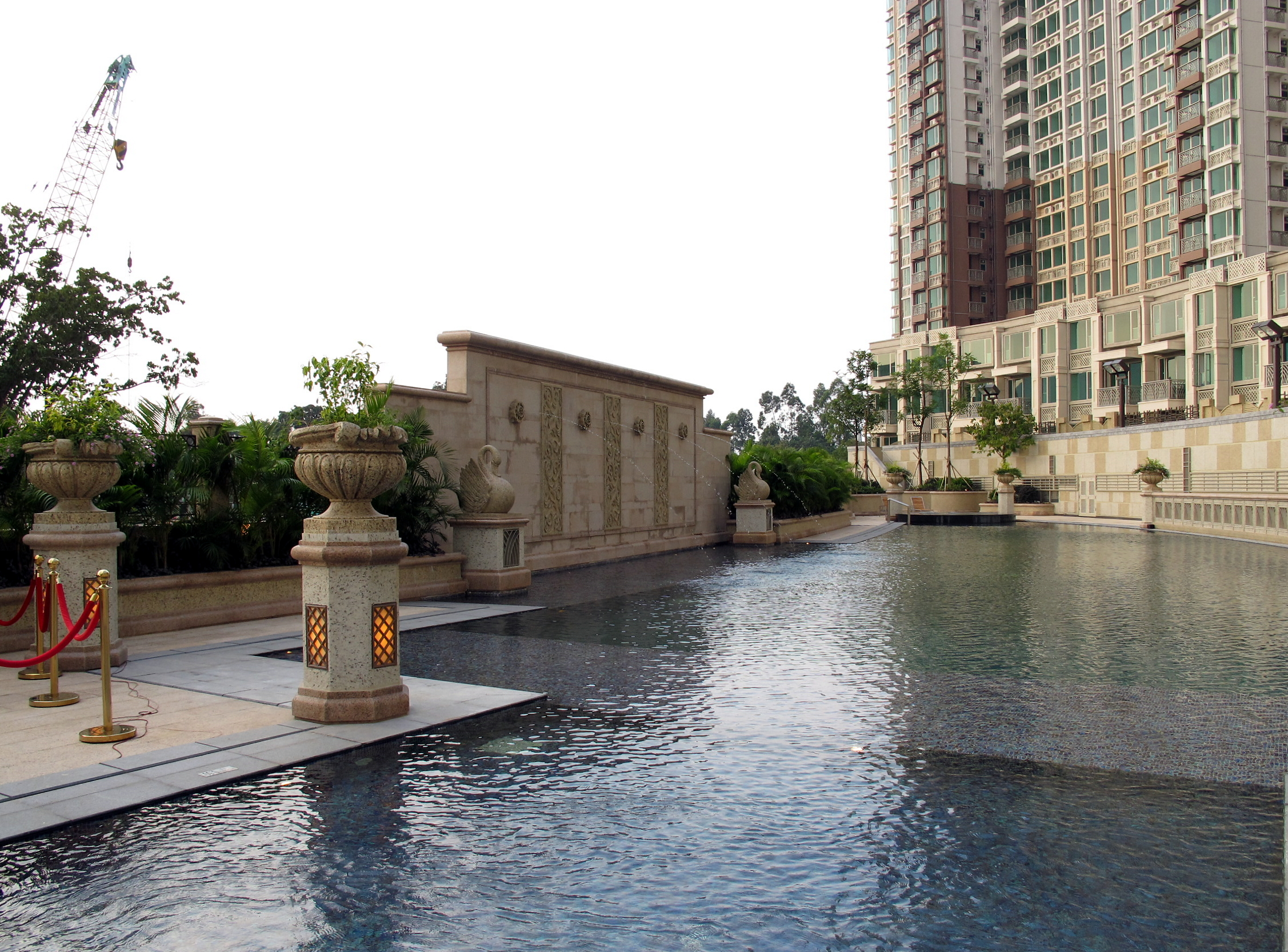 Uptown Swimming Pool